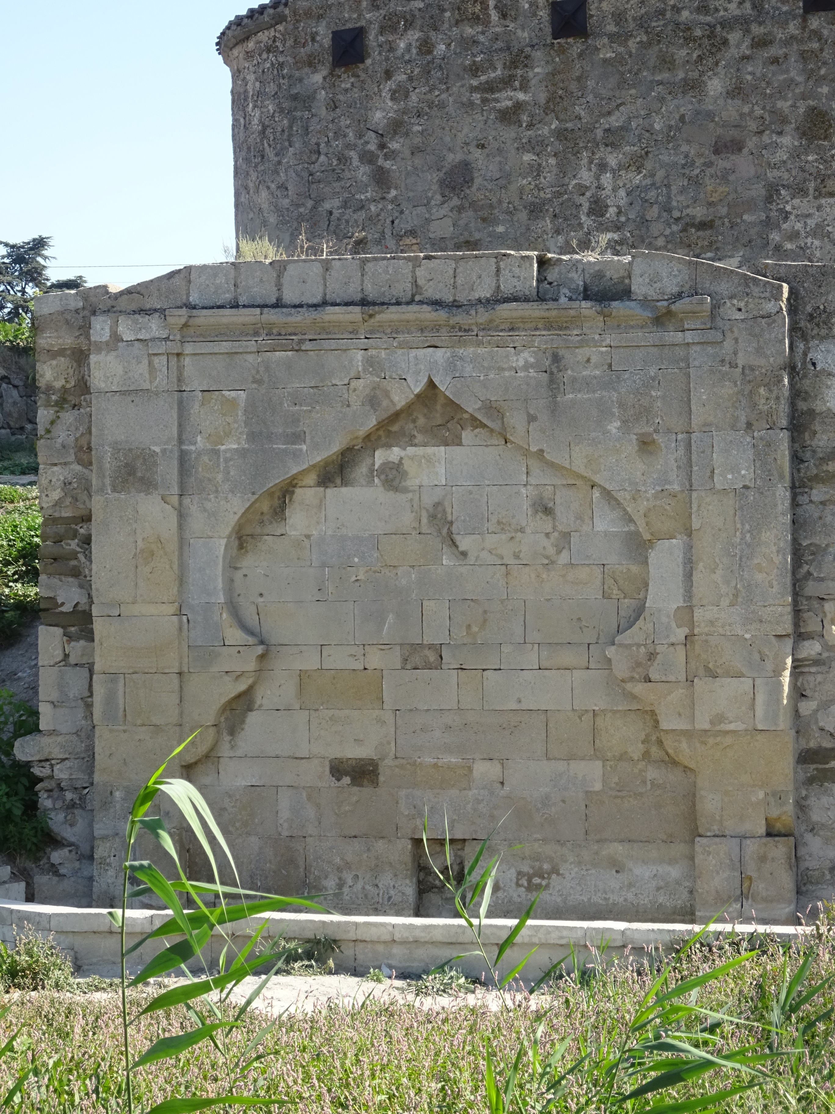 Armenian fountain near the Saint Stephan church